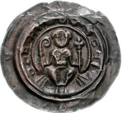 GERMANY, Naumburg. Berthold II, von Meissen. 1186-1206. AR Bracteate Pfennig (37mm, 0.87 g, 0h). Bishop seated facing, holding crozier and cross-tipped sceptre. Bonhoff 928; Löbbecke 643; cf. Reichmann 1534. VF, toned, wrinkled flan.